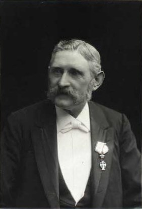 Claus Madsen Brødsgaard (1834-1916), Danish politician, MP